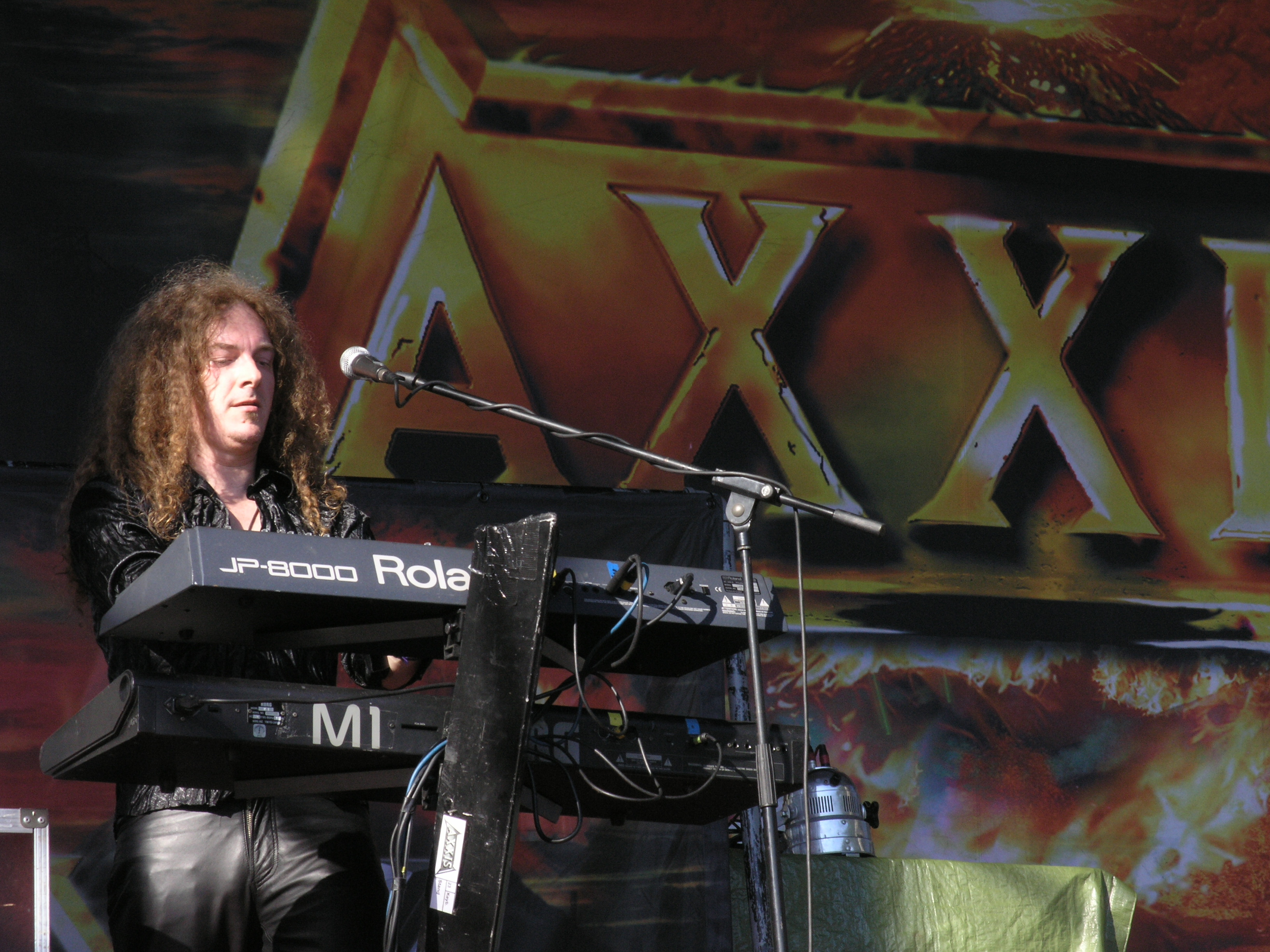 Harry Oellers from Axxis during Masters of Rock 2007 festival